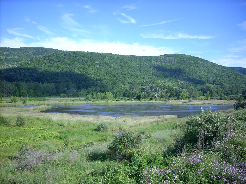 Middlebury Tonwship, Tioga County, Pennsylvania. Wetland